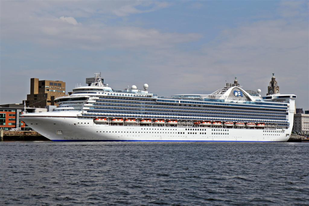 Caribbean Princess, River Mersey